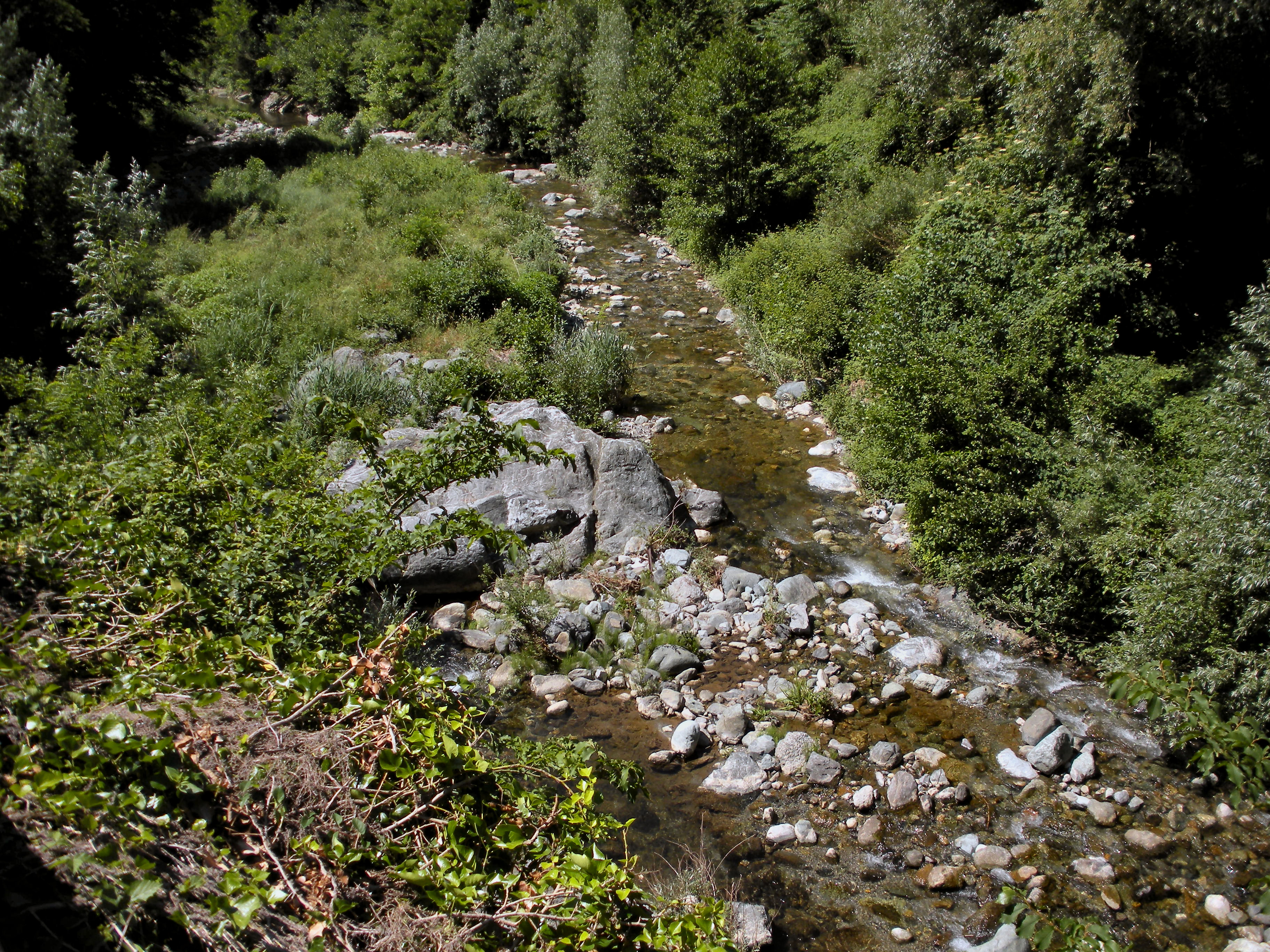 Campomorone, province of Genoa, Italy. Torrent Verde near Isoverde